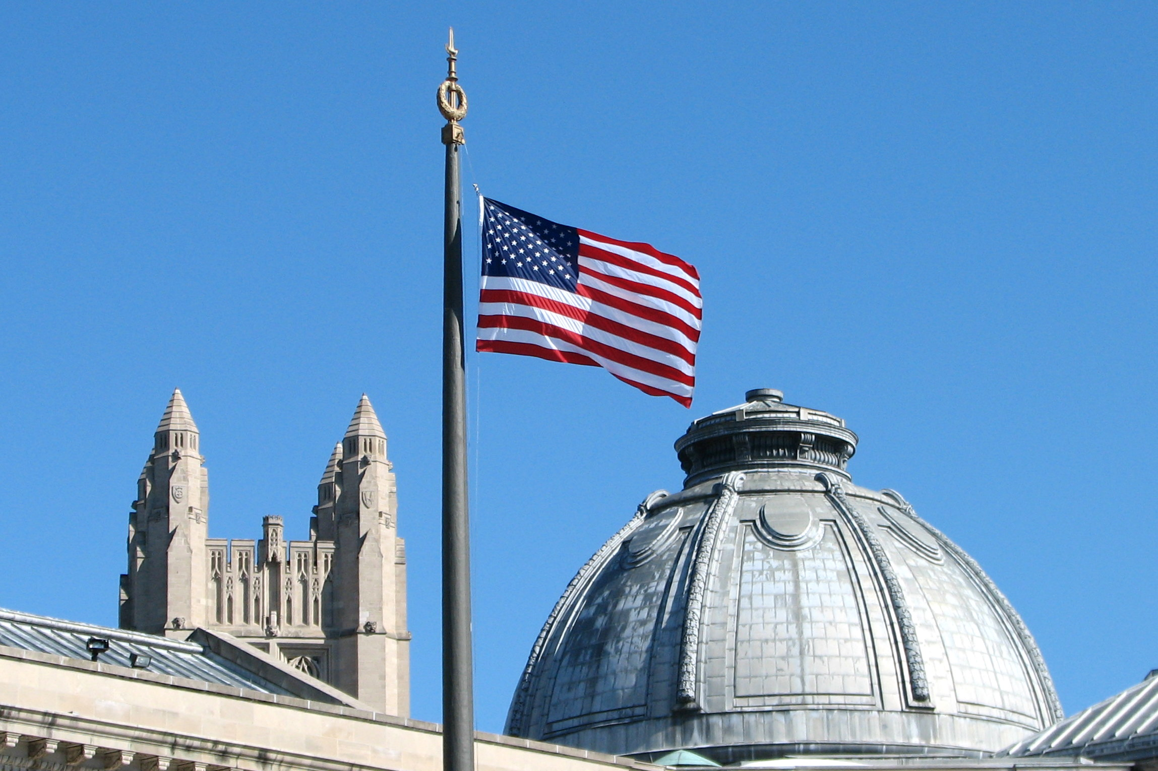 The American flag flying at Yale University. On the left is the top of Sheffield Sterling Strathcona Hall; on the right is the cupola of Memorial Hall.